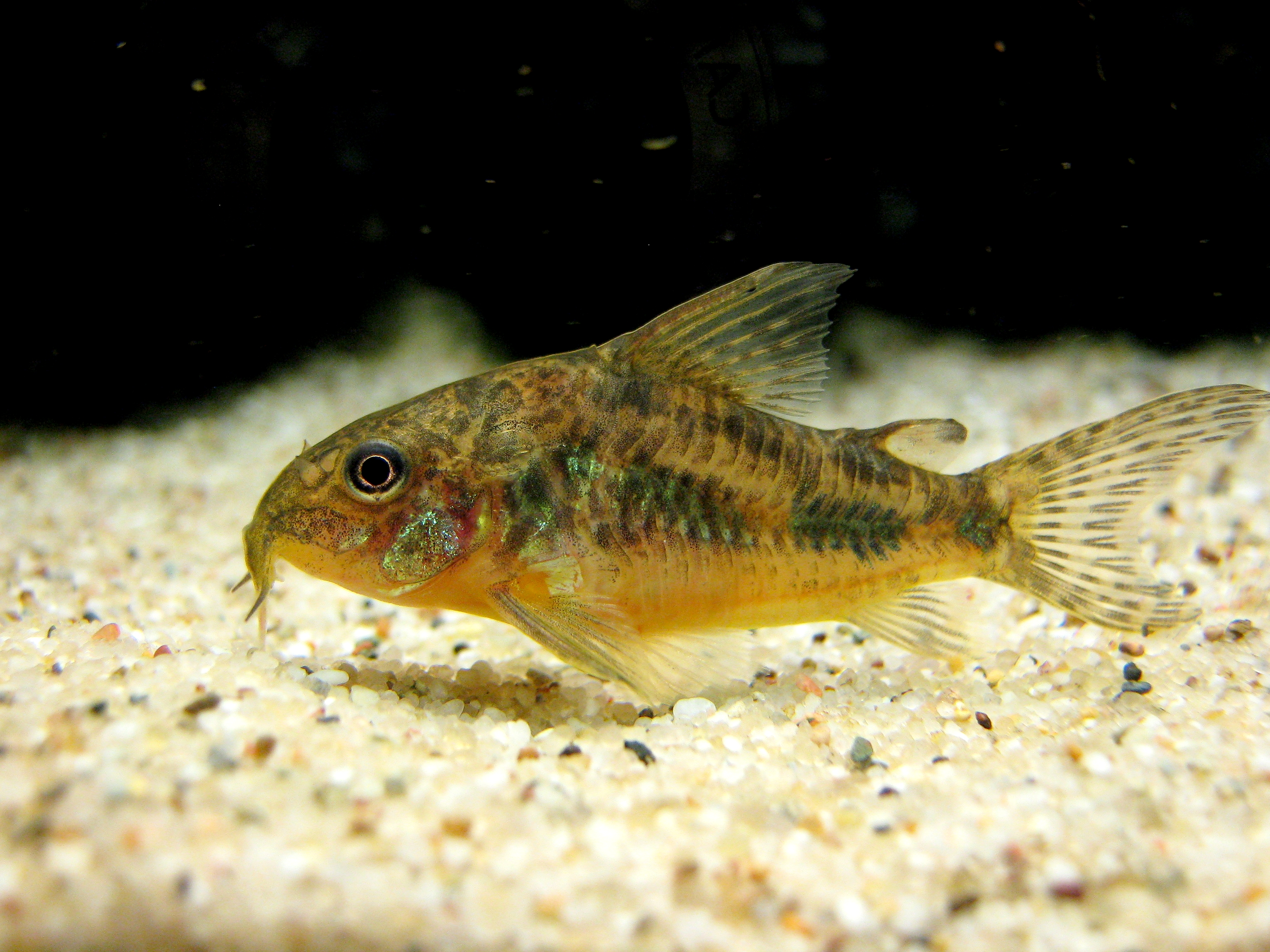 Corydoras paleatus in a light current